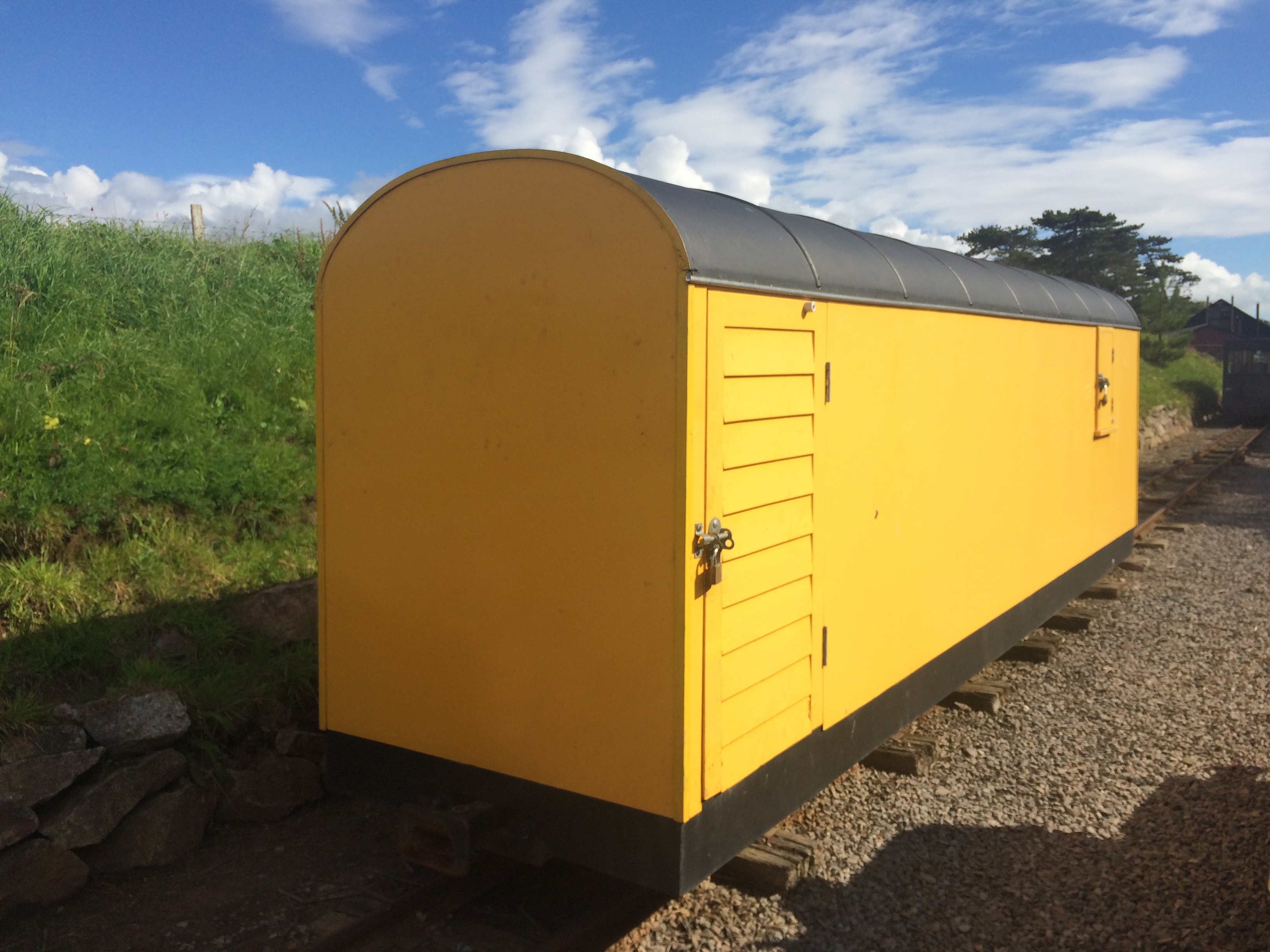 A utility van for use by engineers on the Ravenglass and Eskdale Railway, Cumbria.